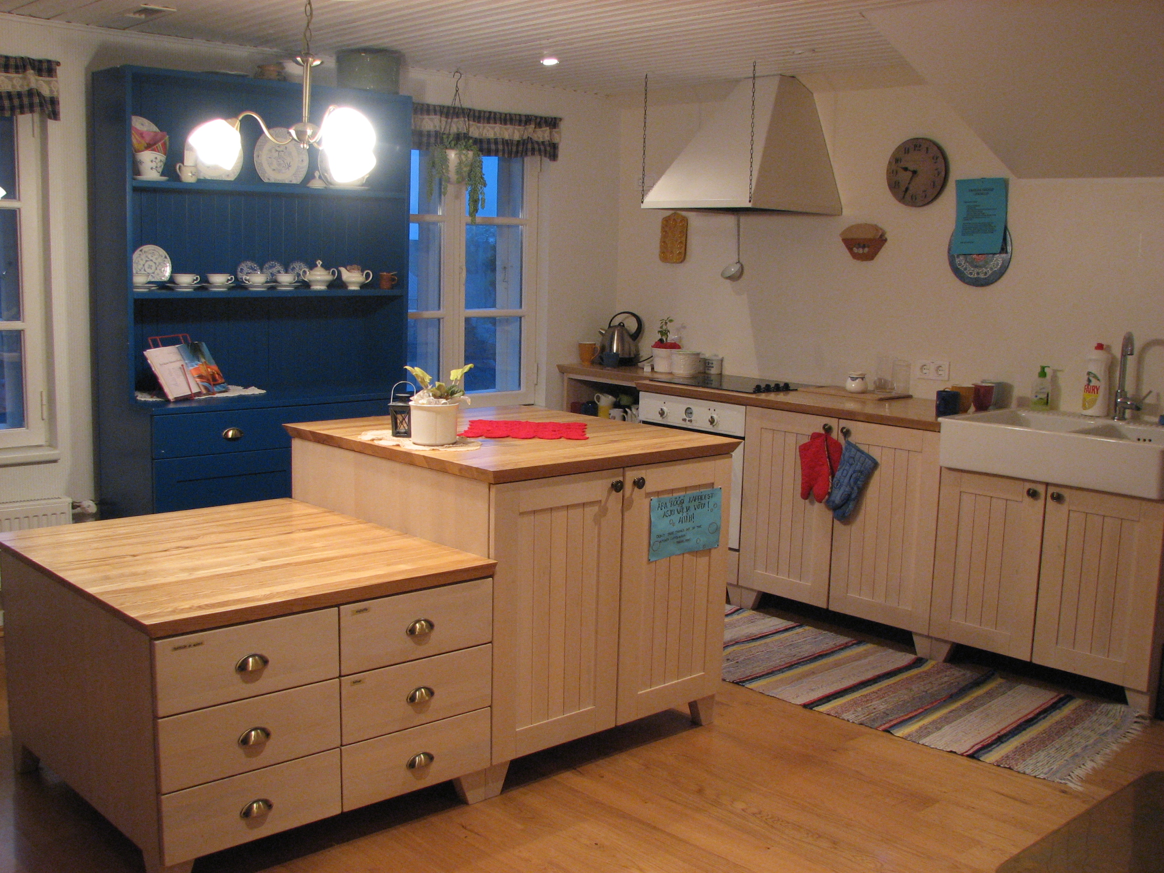 A view into Ilon's Wonderland in Haapsalu town, Estonia